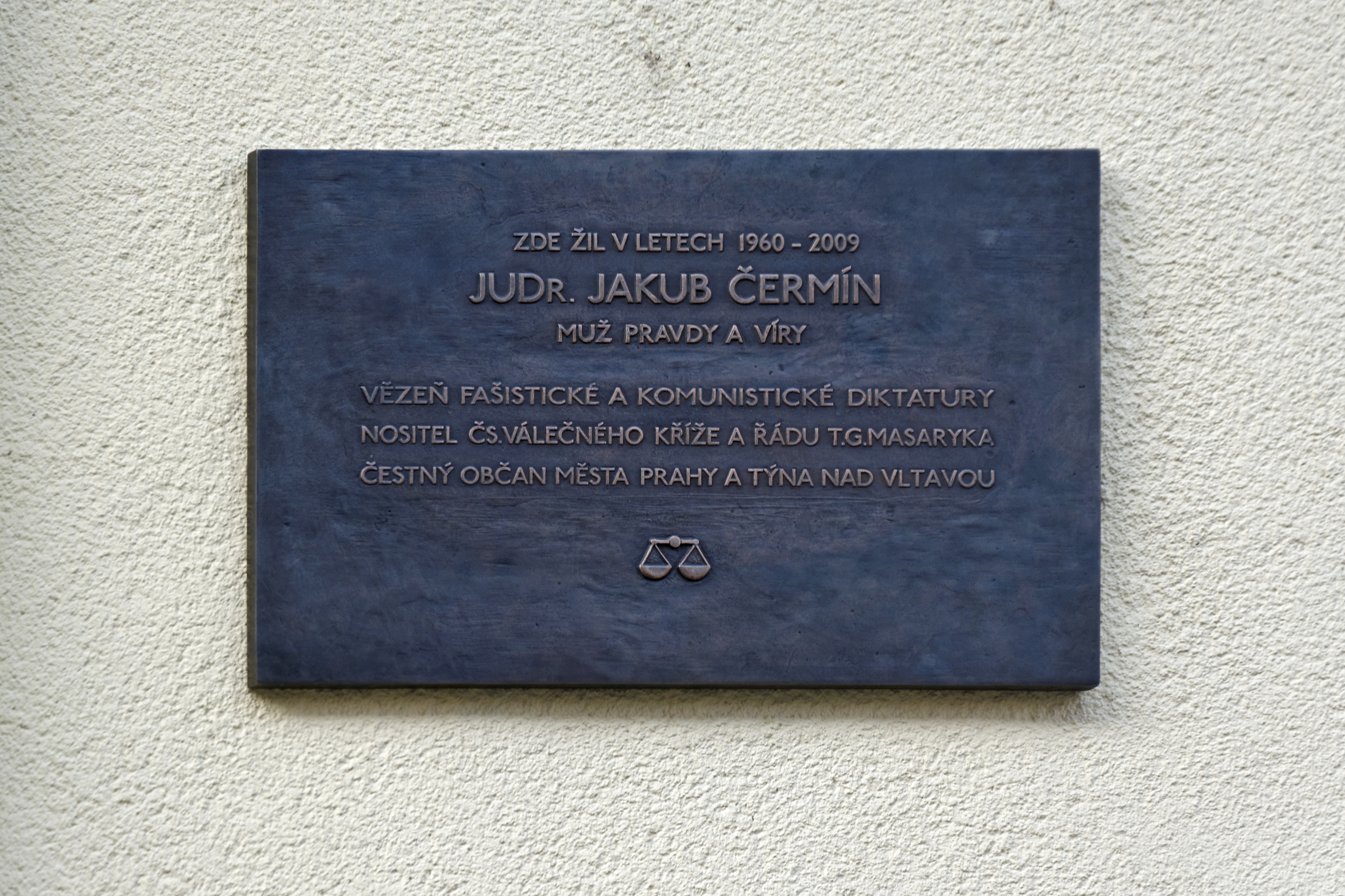 Memorial plaque to Jindřich Čermín, Praha 6, Jaselská 38